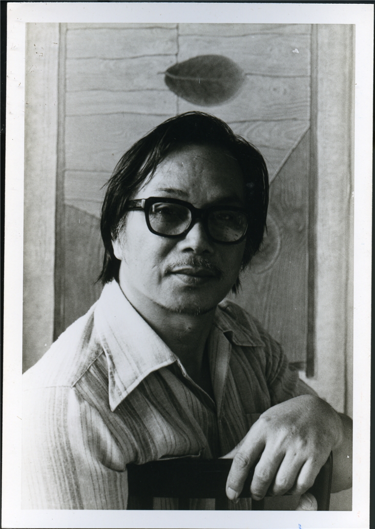 Photographic Portrait of Ha Bik Chuen, Undated - CS_Shelf 253_1982(81-120). Photographic portrait of Ha Bik Chuen in front of his artwork. The photo is found in the 1982 folder of contact sheets in the Ha Bik Chuen Archive.